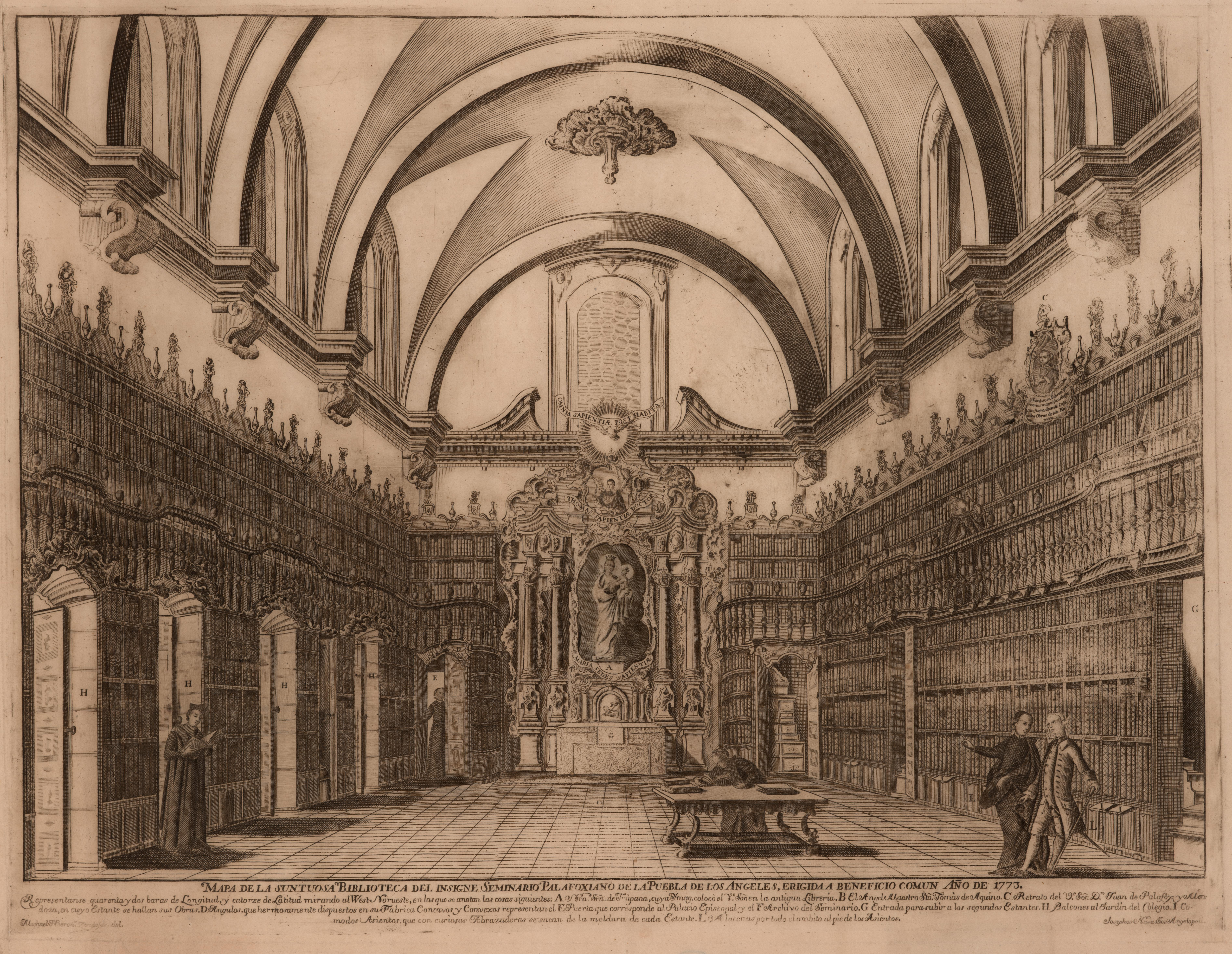 A gentleman and members of the clergy admire and work in the Biblioteca Palafoxiana (1773). Includes bookcases, desk, Classical altarpiece containing symbolic elements such as the Lamb of God, the Virgin Mary as the seat of wisdom holding the Christ Child, and the dove of the Holy Spirit. Also includes portrait of a winged Saint Thomas Aquinas holding a quill and a book. The library is located within the present day Historic center of Puebla, in the City of Puebla, Puebla state, México.